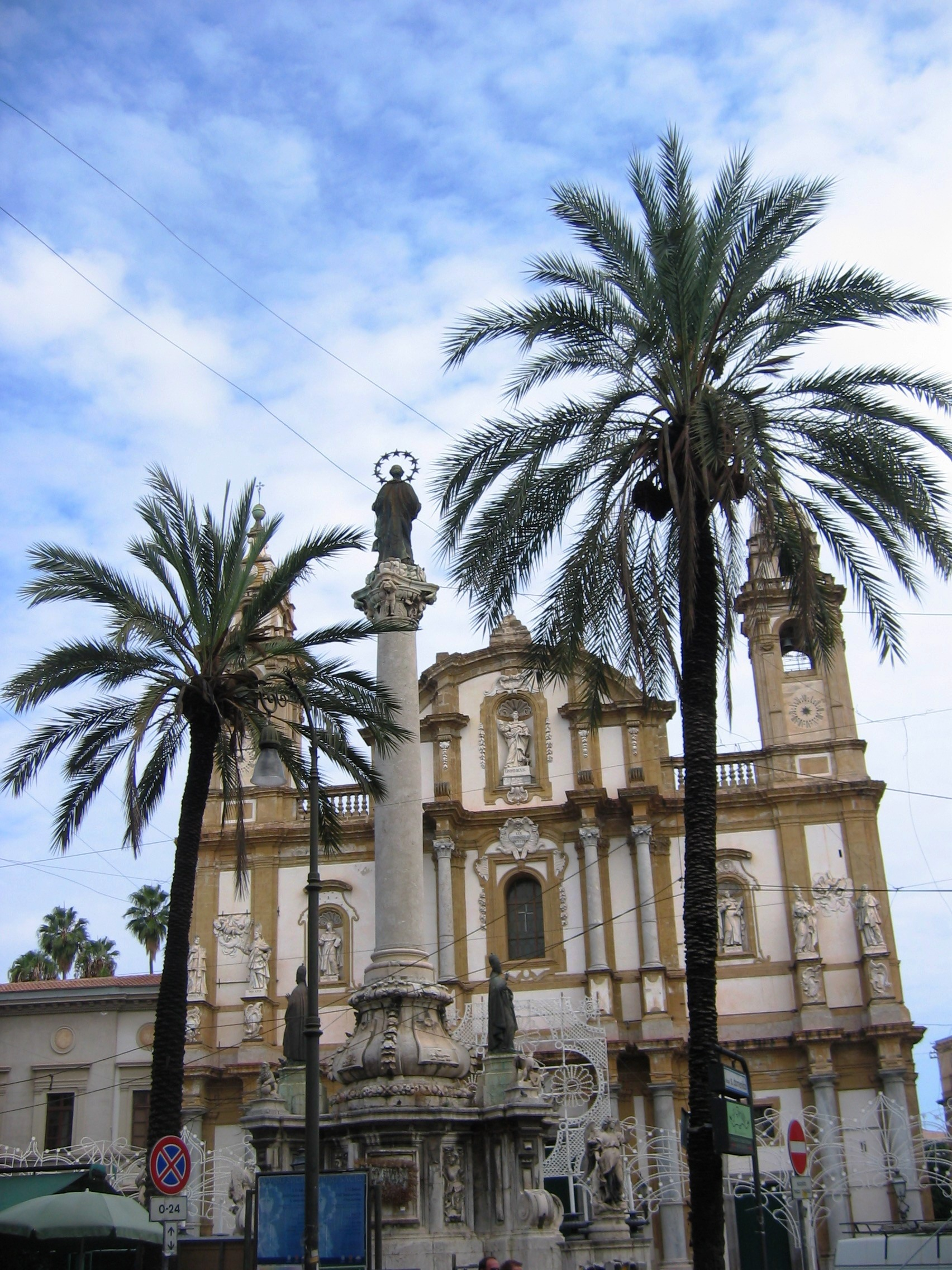 Church of San Domenico-Palermo,Sicily